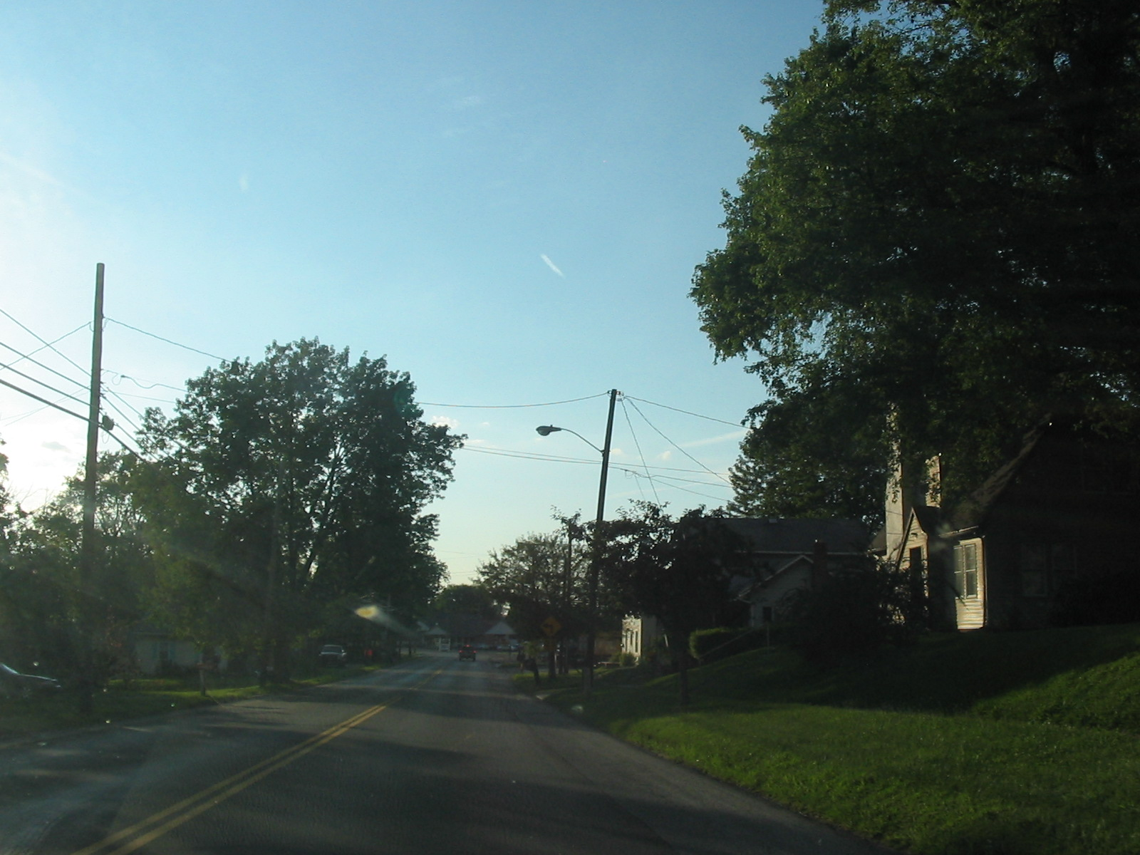 Apple Creek, Ohio; Image taken by me for Wikipedia - not the best but it'll do for now